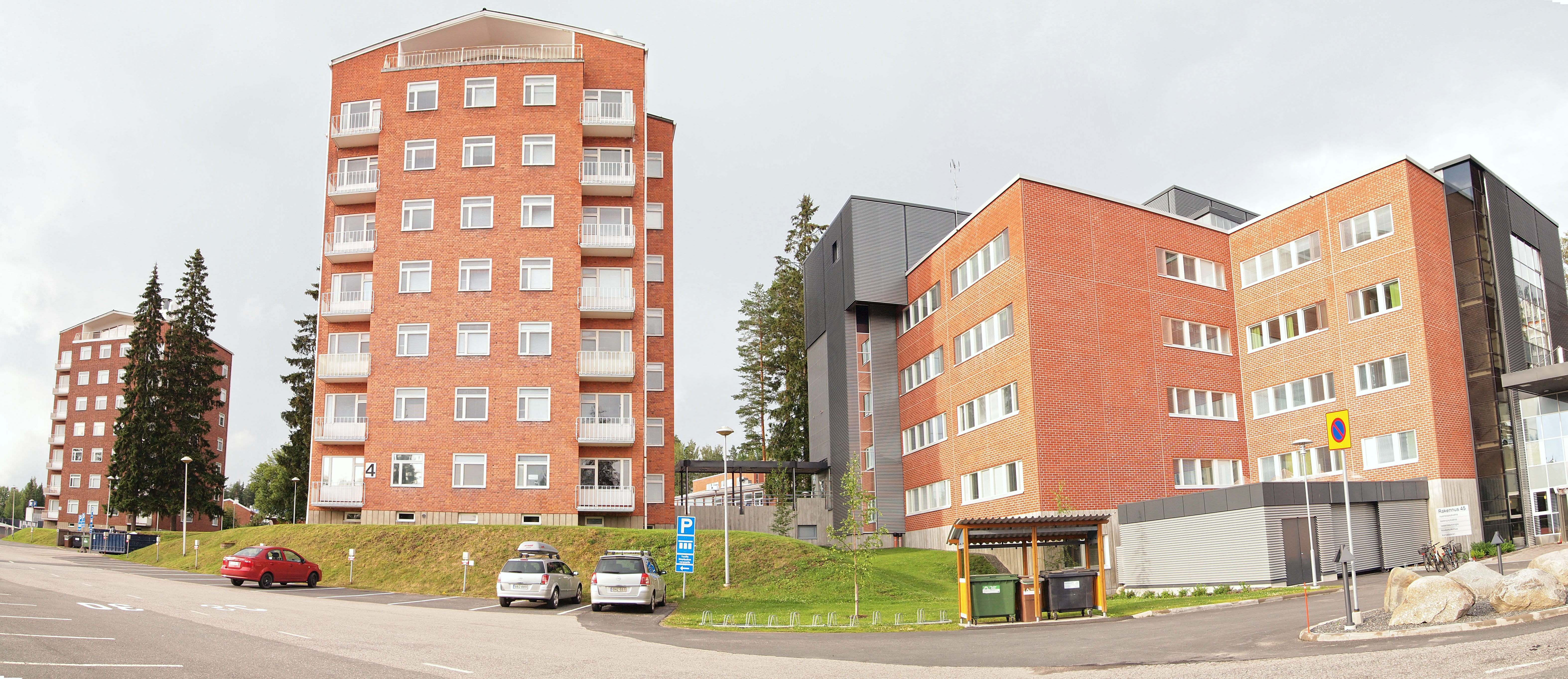 Buildings on the area of Central Finland Central Hospital.